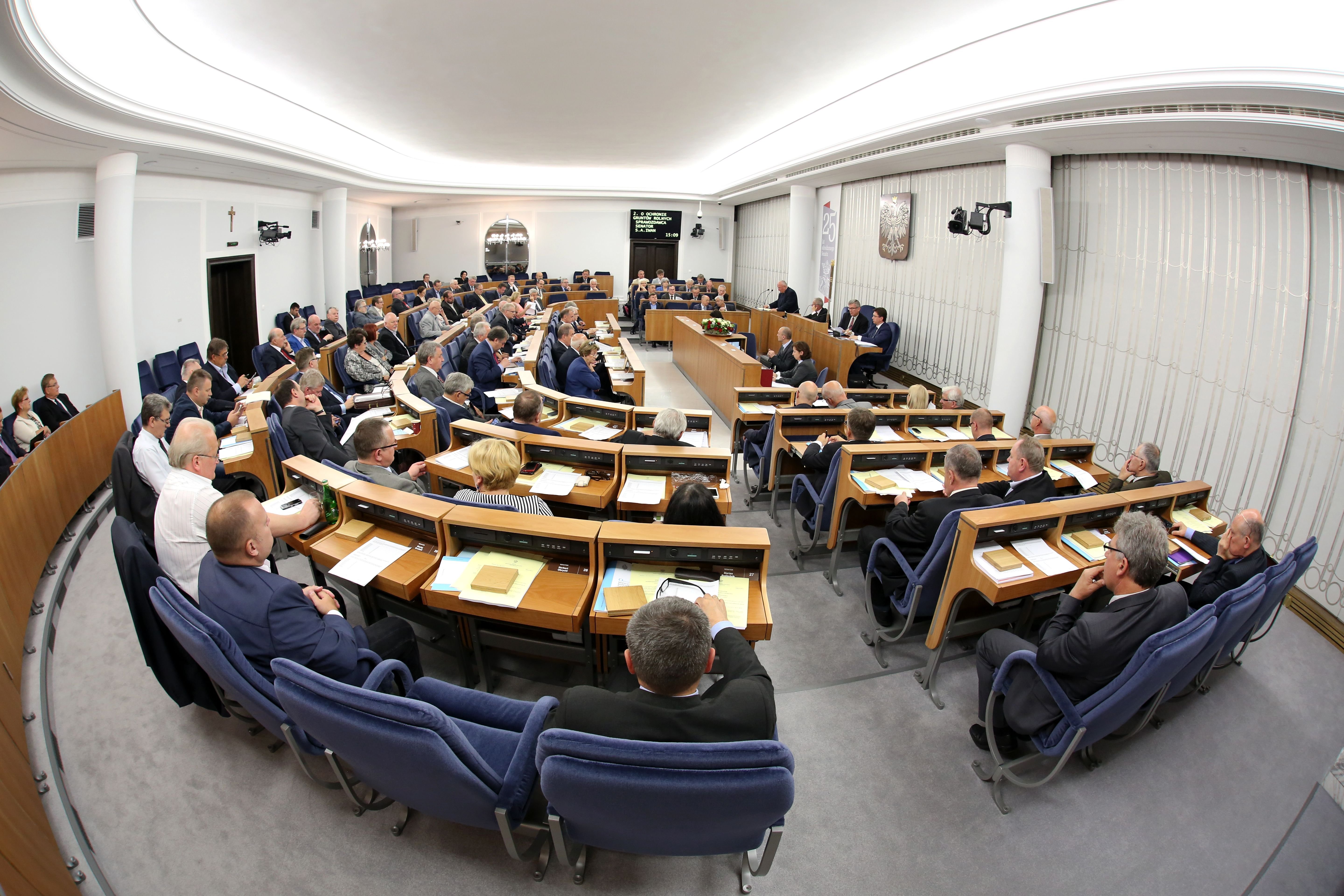 57th sitting of the Polish Senate